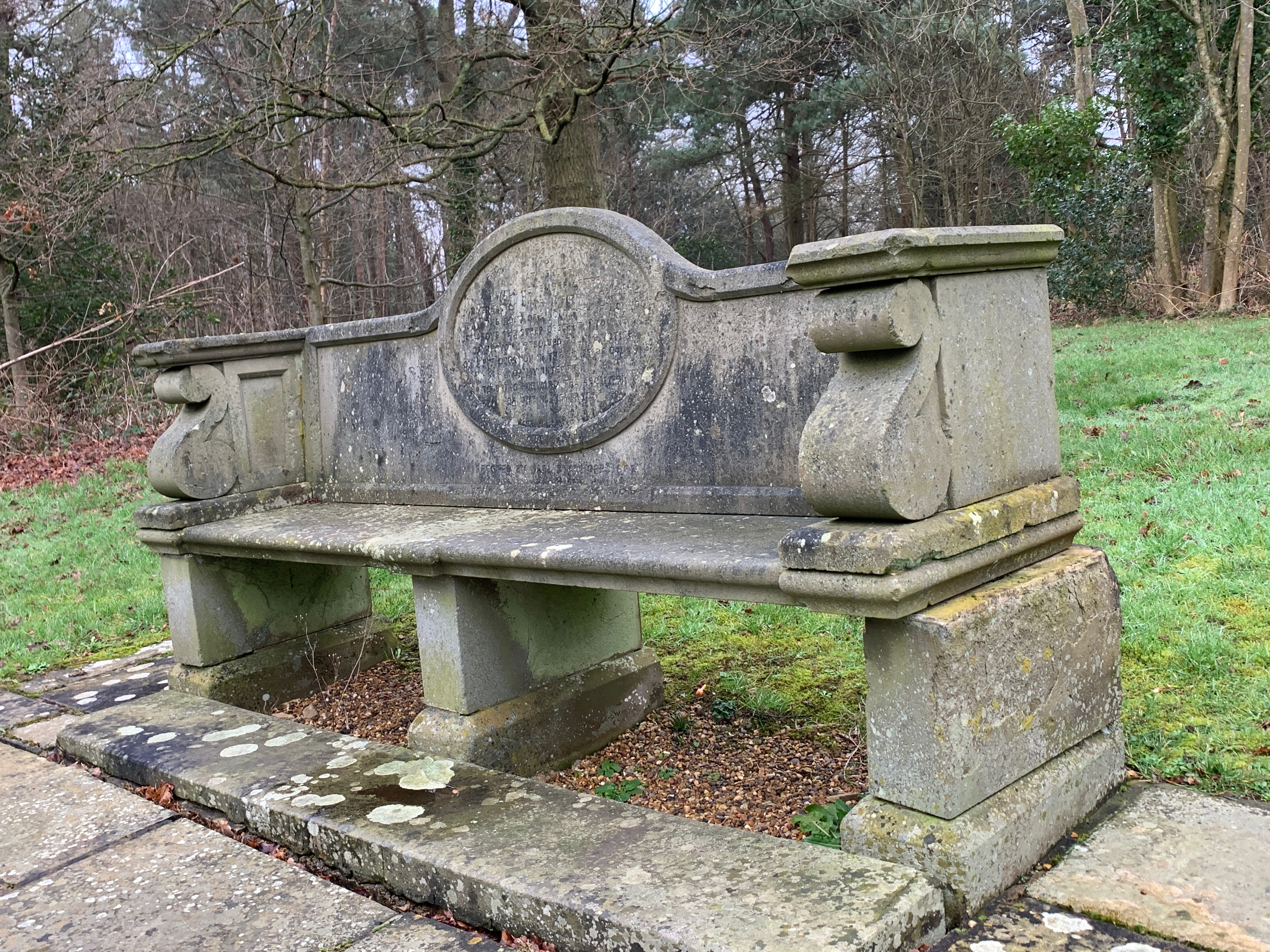 FROM MR WILBERFORCE'S DIARY 1787 AT LENGTH I WELL REMEMBER AFTER A CONVERSATION WITH MR. PITT IN THE OPEN AIR AT THE ROOT OF AN OLD TREE AT HOLWOOD JUST ABOVE THE STEEP DESCENT INTO THE VALE OF KESTON, I RESOLVED TO GIVE NOTICE ON A FIT OCCASION IN THE HOUSE OF COMMONS OF MY INTENTION TO BRING FORWARD THE ABOLITION OF THE SLAVE TRADE ERECTED BY EARL STANMORE 1862 BY AUTHORISATION OF EARL STANWORTH.